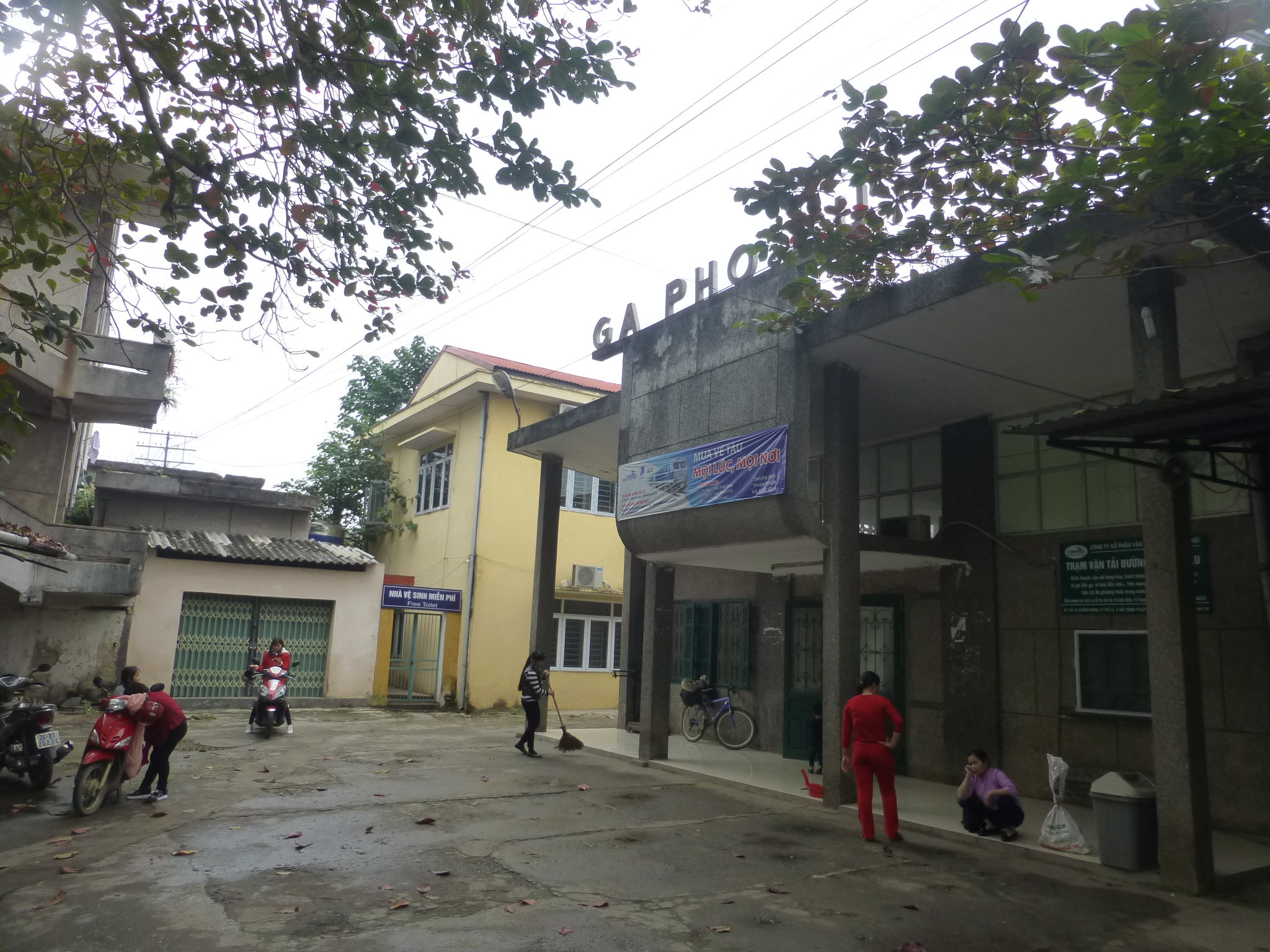 Phố Lu Railway Station, on the Hanoi-Lao Cai line